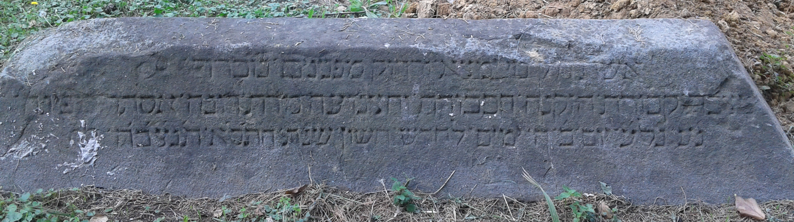 Gravestone of Dona Ester da Pisa from Portoferraio Jewish cemetery now in Lupi cemetery in Livorno (5 Novenber 1704)